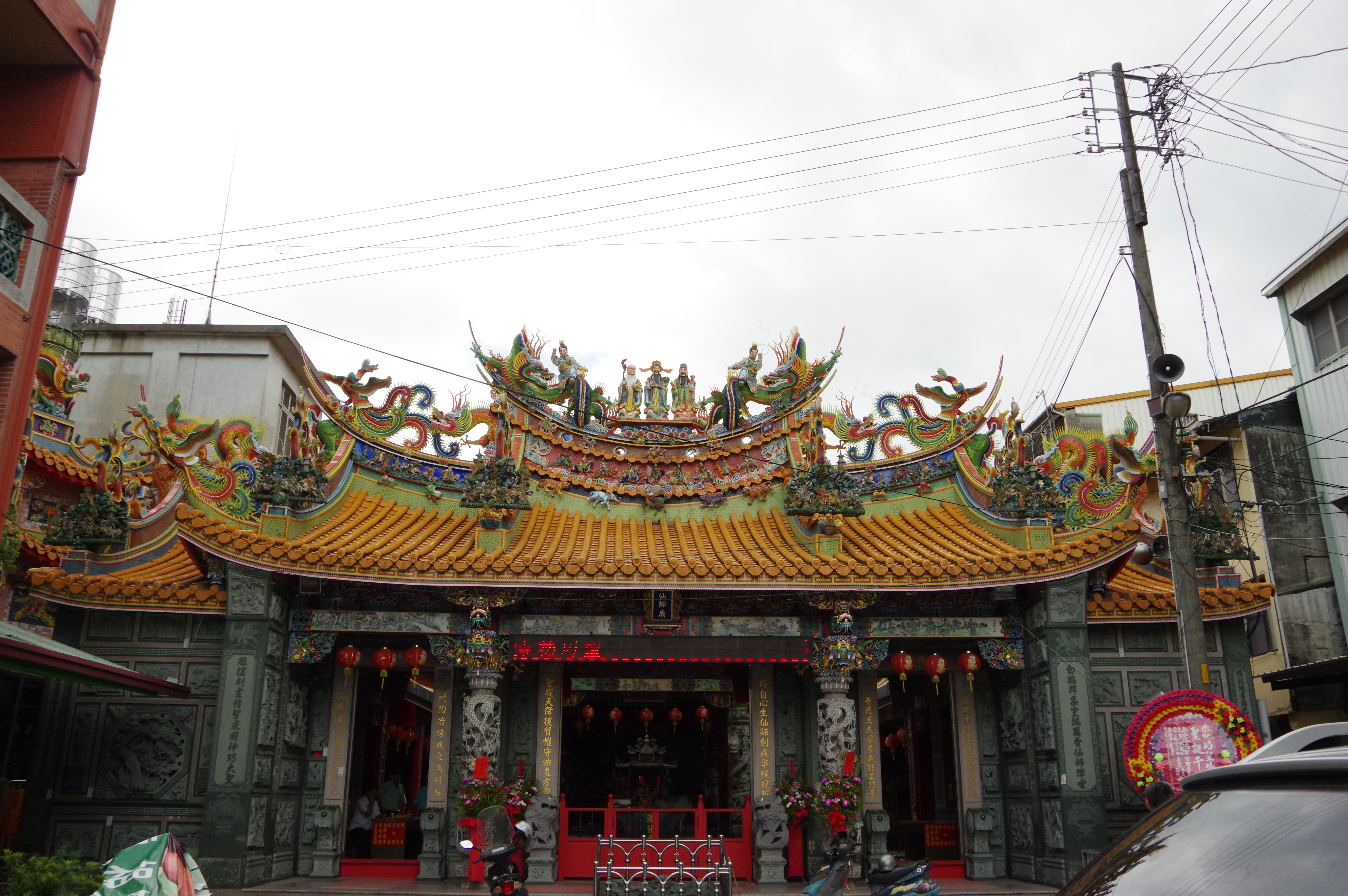 Dongshi Qiao Sheng Xian Shi Temple